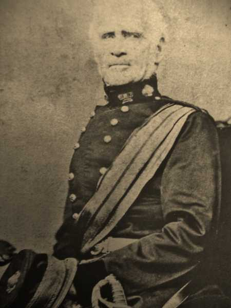 Portrait of Field Marshal Sir William Rowan